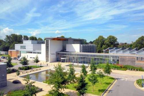 Photograph of the entrance to Oxstalls campus